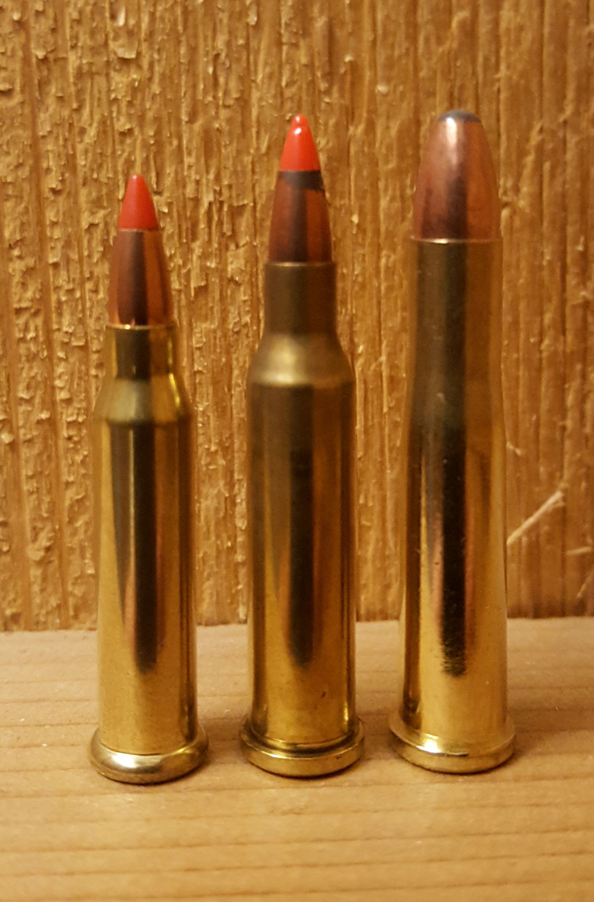 From left: .17 Winchester Super Magnum, .17 Hornet, .22 Hornet